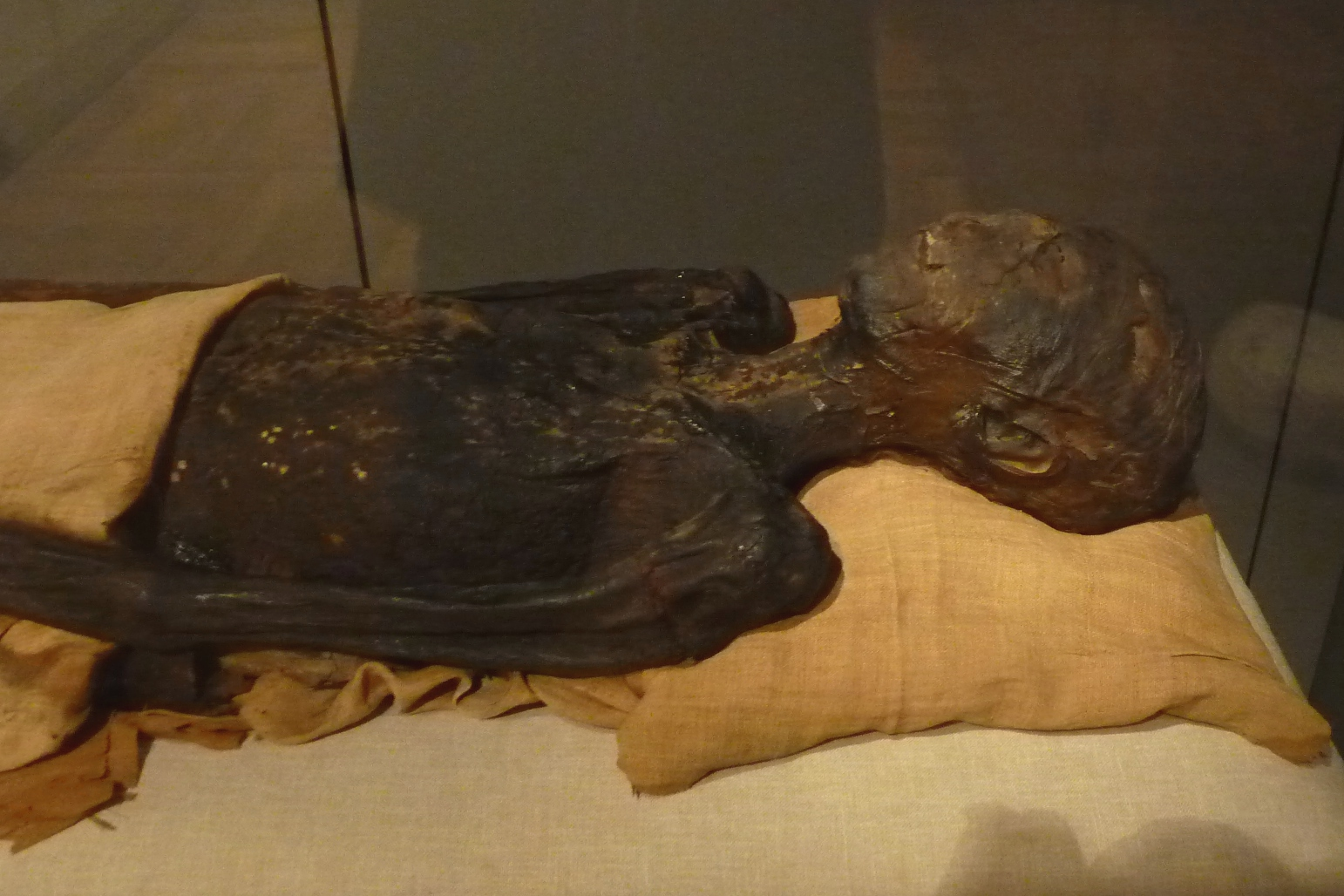 Mummy of the ancient Egyptian princess Ahmose, daughter of 17th Dynasty pharaoh Seqenenre Ta'a and his sister-wife Sitdjehuti. The mummy and part of the funerary equipment was found in her Queen's Valley tomb QV47 (which was looted in antiquity) by Ernesto Schiaparelli in 1904. Turin, Museo Egizio.